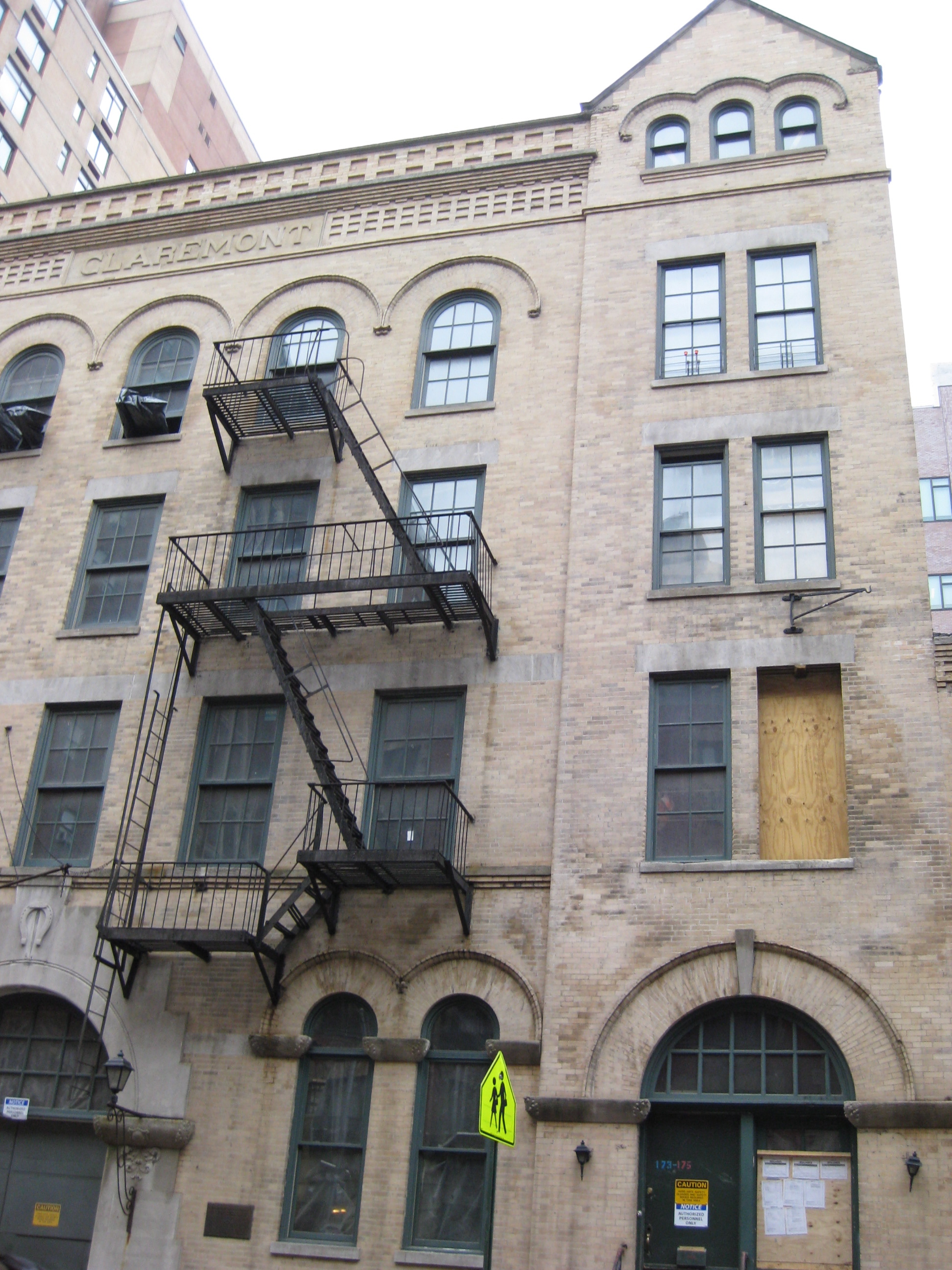 This photo is of Wikipedia Takes Manhattan location code 4, Claremont Riding Academy.